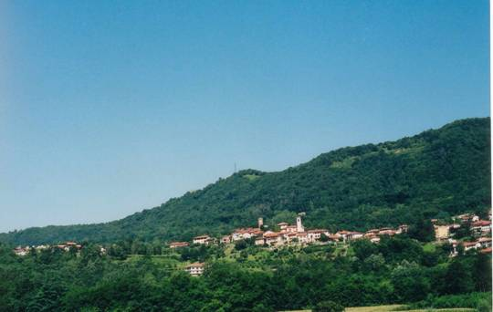 General view of Parella (province of Torino, Italy)